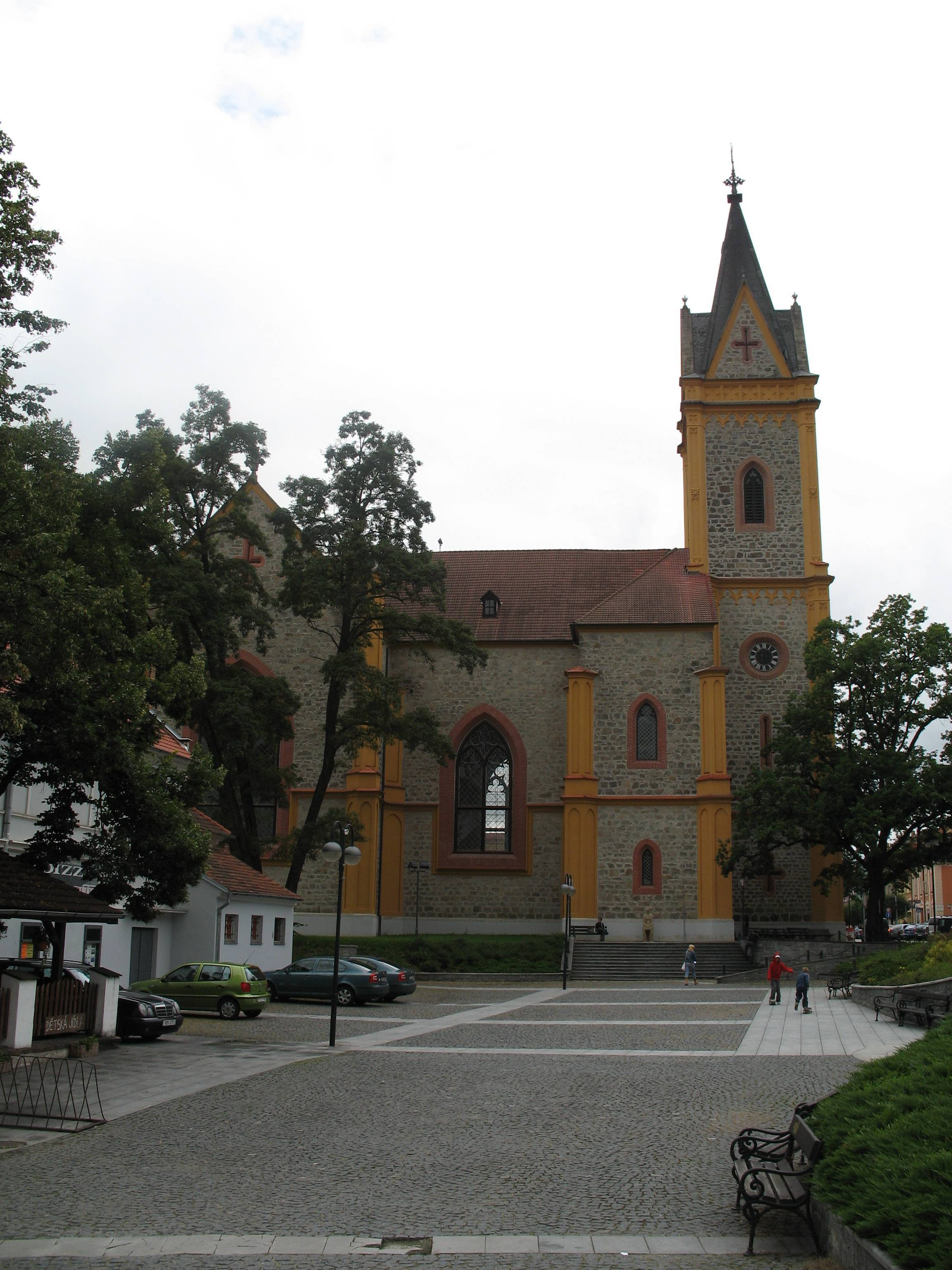 Church of St John Nepomucene in Hluboká nad Vltavou, České Budějovice District, Czech Republic